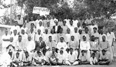 This picture illustrates the starting point of C. N. Annadurai's owned & edited Tamil magazine titled 'Dravida Nadu' in 1942. It show the photo session of its associated members. Anna - seen sitting in the 2nd row from bottom placed at sixth position from left-hand side. Also the magazines name board (திராவிட நாடு) is displayed at the top.